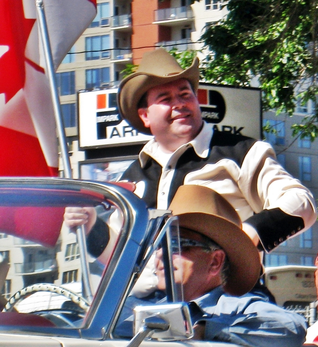 Jason KENNEY - MP for Calgary Southeast Politicians ride in the 2010 Calgary Stampede Parade. June 9, 2010 in Calgary, Alberta, Canada.